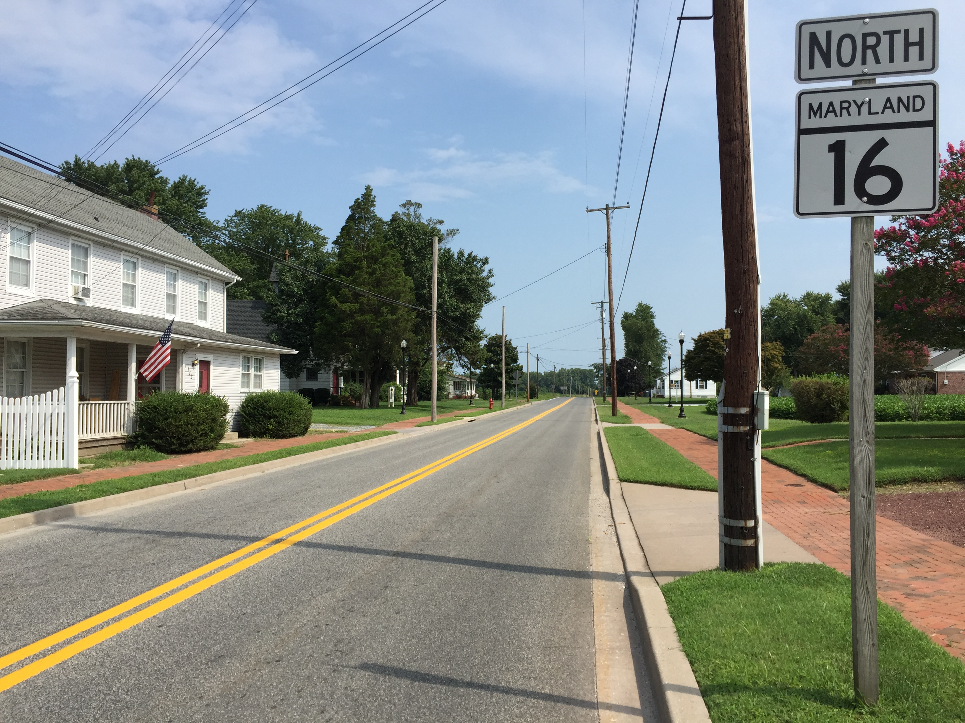 View north along Maryland State Route 16 (Main Street) at Maryland State Route 14 (Railroad Avenue) in East New Market, Dorchester County, Maryland